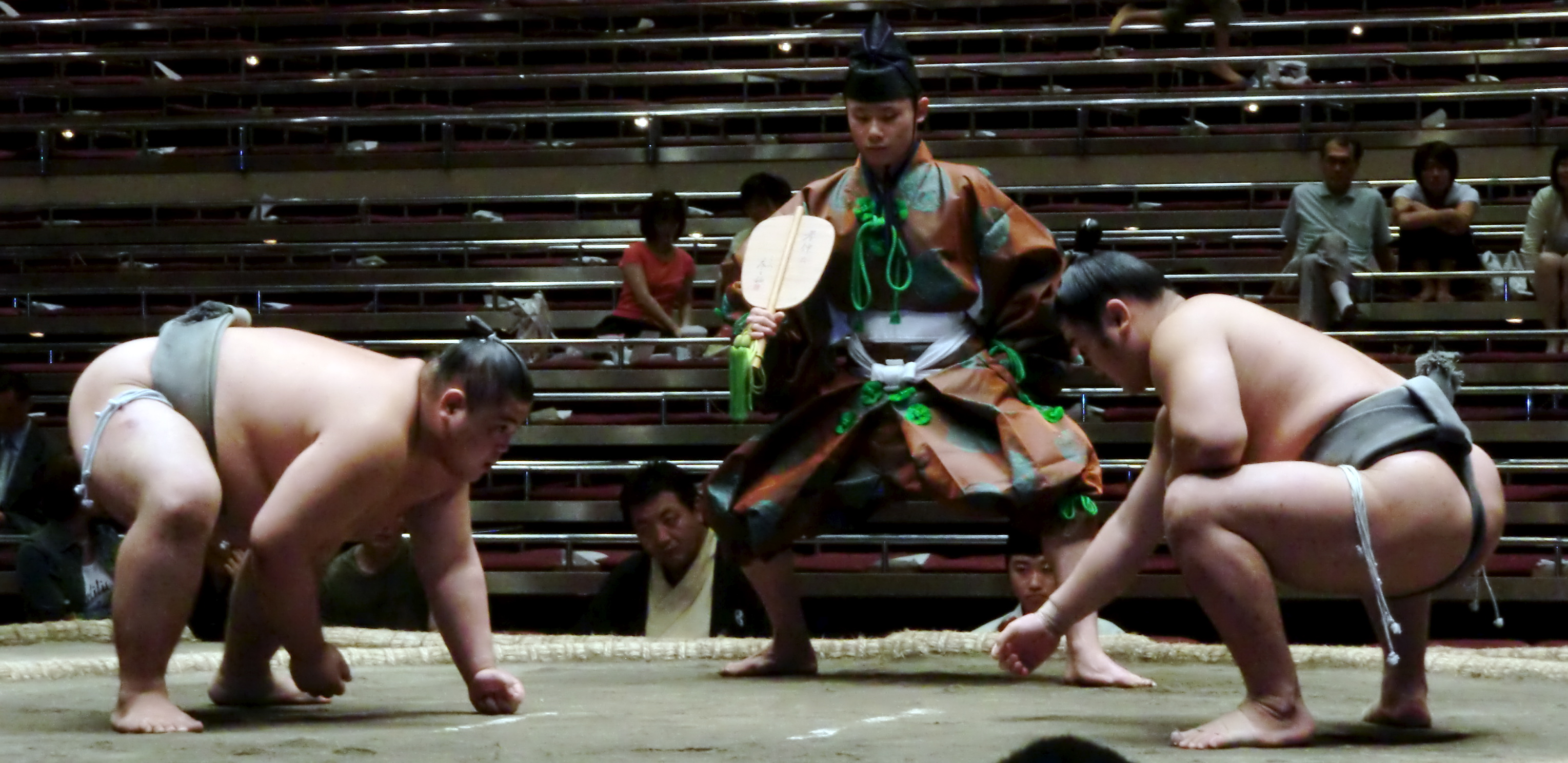 Taken by myself at a recent tournament